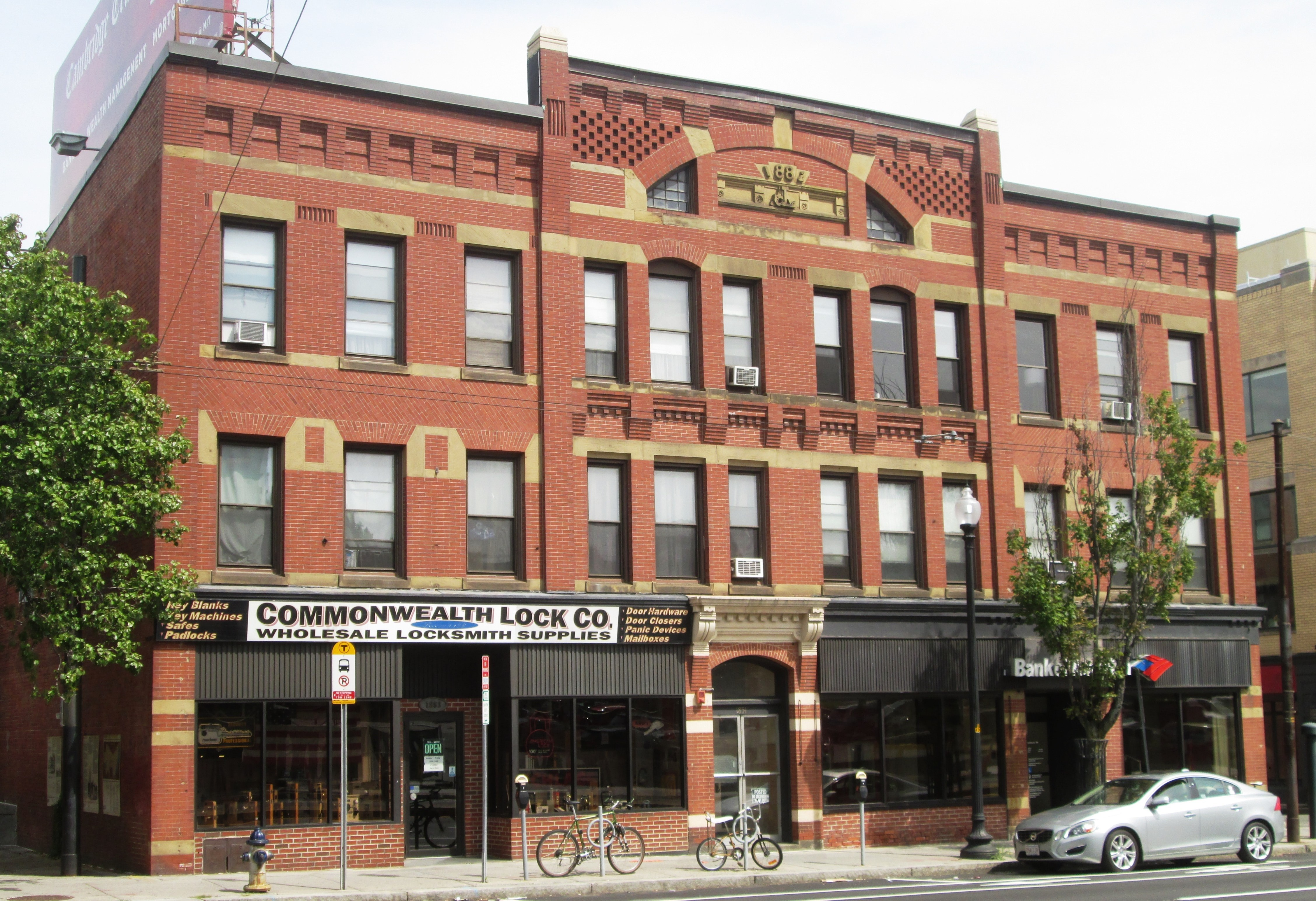 The Lovell Block, located at 1853 Massachusetts Avenue between Somerville Avenue and Roseland Street in Cambridge, Massachusetts, was built in 1882 by Andrew Jackson Lovell to house his grocery business and the North Cambridge Post Office, with the upper floors used for residential flats. The building was listed on the National Register of Historic Places in 1983.